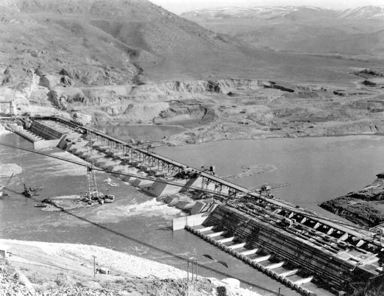 Construction of the Grand Coulee Dam.